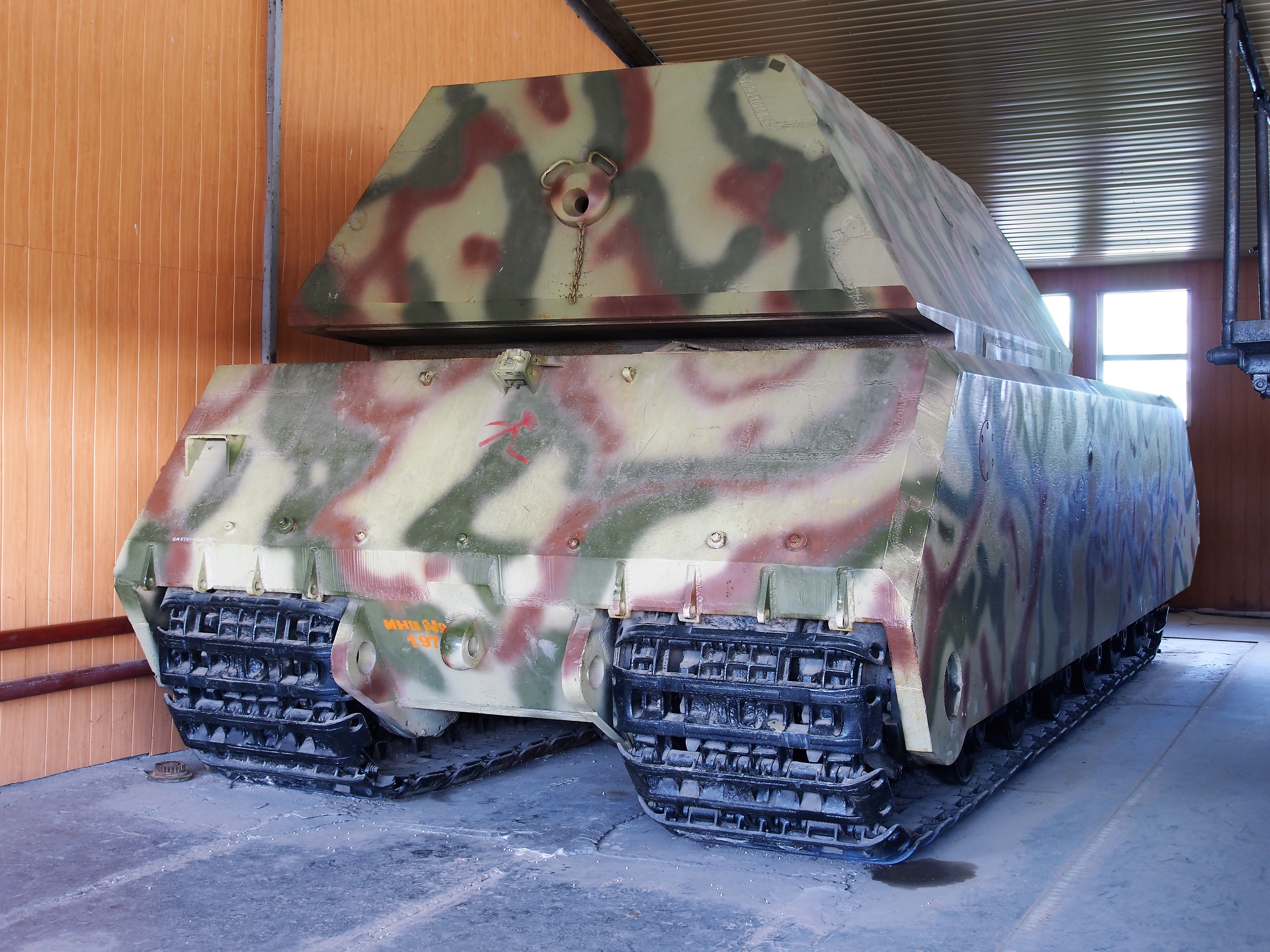 Pz.Kpfw VIII «Мaus» at the Kubinka tank museum.